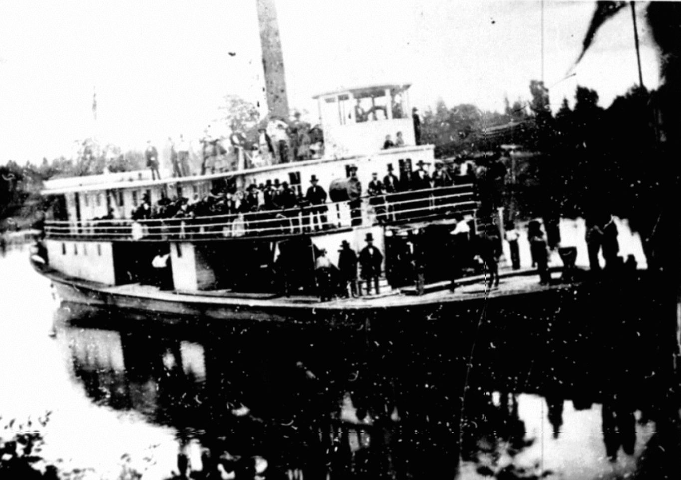 Onward, steamboat which operated on the Willamette River, the Tualatin River, from 1867 to 1875, then transferred to the Umpqua River.